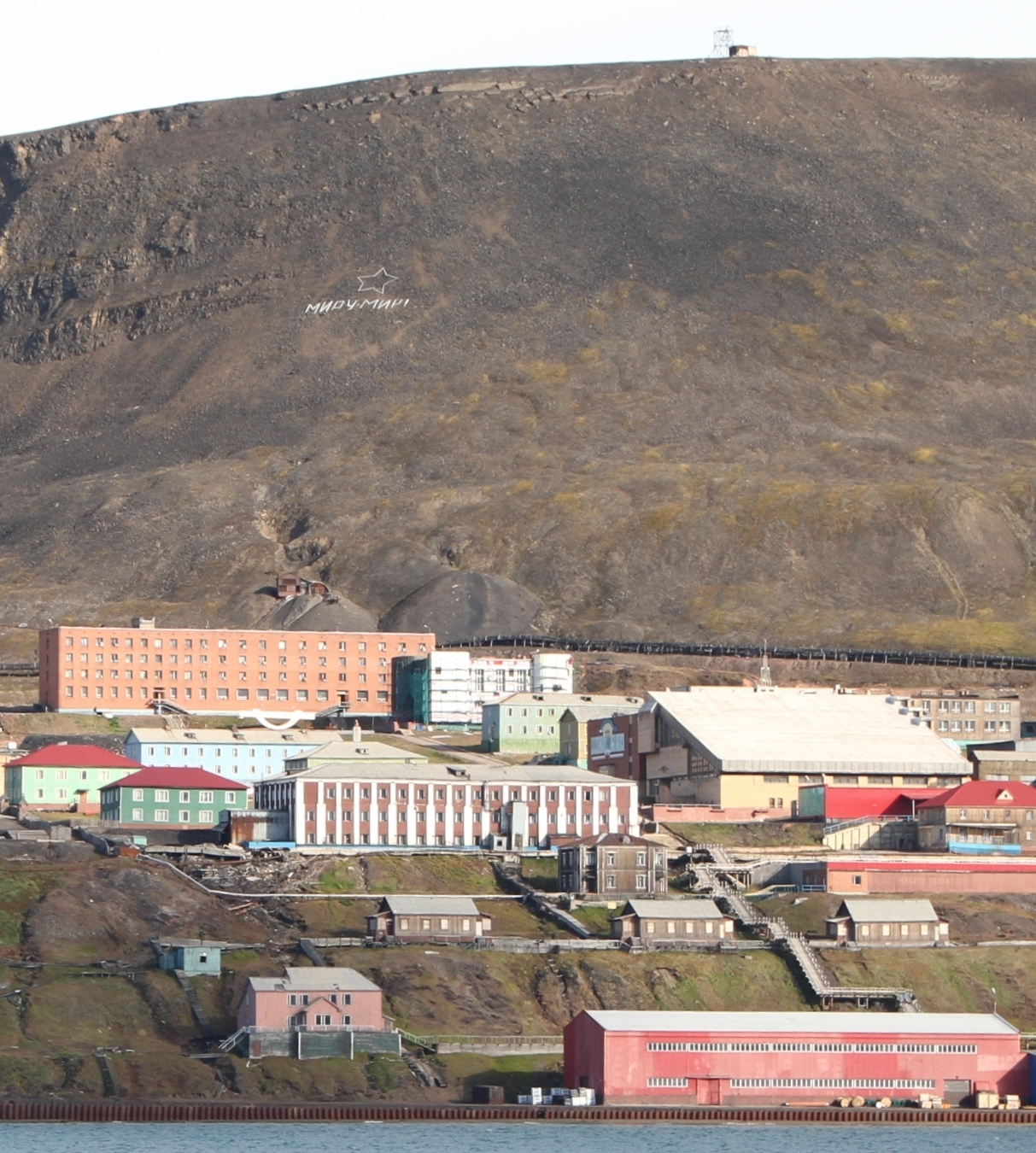 Image of Barentsburg, the western (Russian) settlement of the Isfjorden bay, Spitsbergen, Svalbard. This image shows the cebtral-eastern part of town, with the MirUMir logo in the hillside. Also in the hillside, under the MirUMir logo, are early 20th century mining facilities with slag dumps - from the left: Cultural Heritage Sites number 105725, 105723, and 105722.